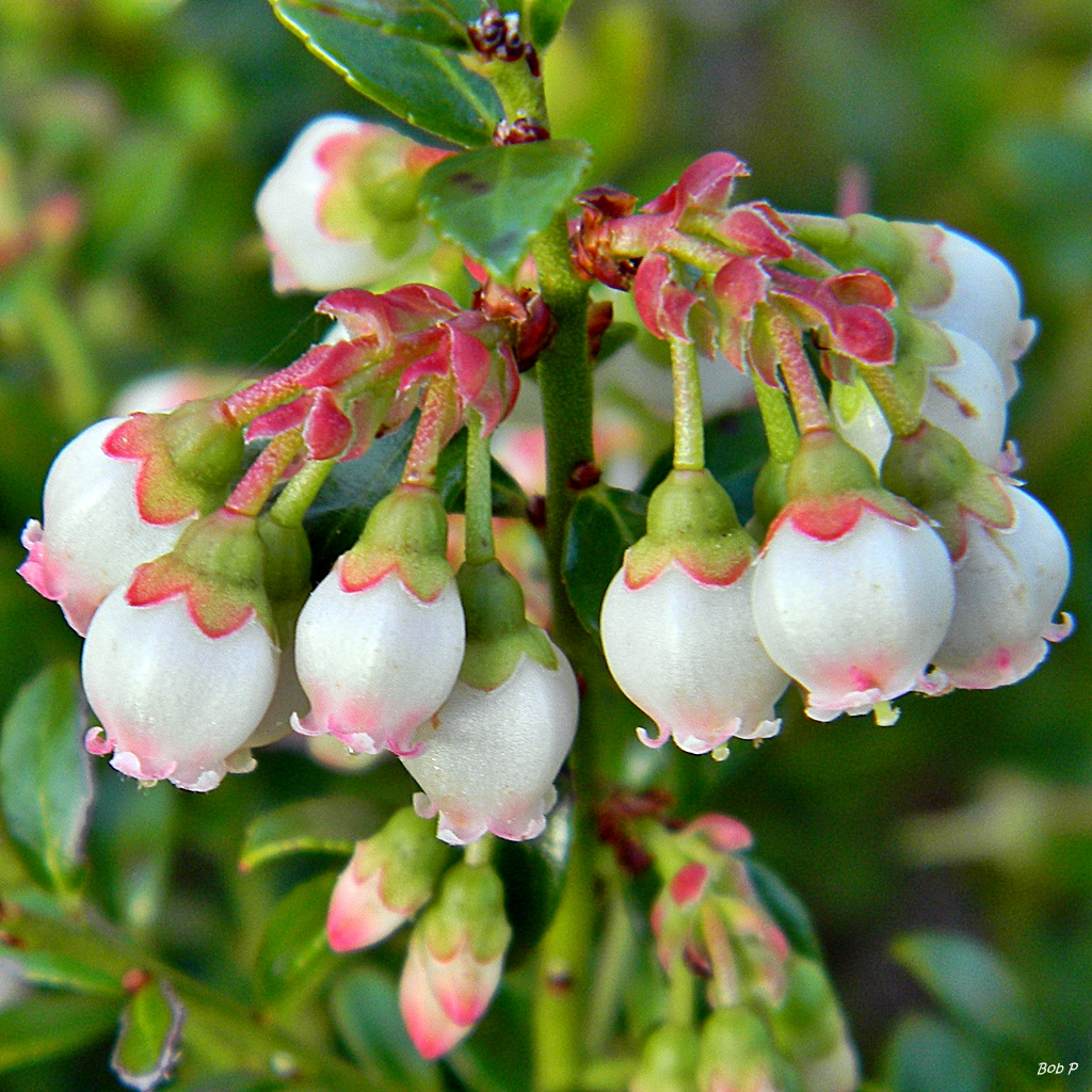 Shiny blueberry blossoms from back in March. I have been waiting to photograph the fruit which is very popular with wildlife and quickly eaten. The blossoms are from Frenchman's Forest Natural Area and the fruit from Juno Dunes.